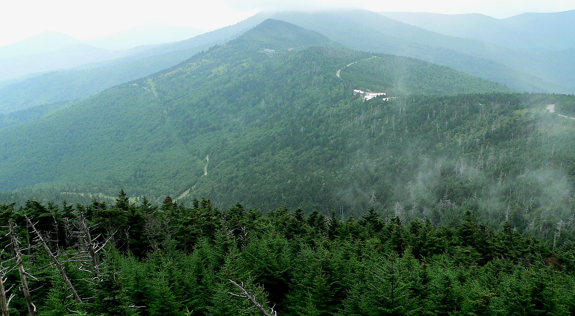 Looking southwest from the observation tower atop Mount Mitchell in Yancey County, North Carolina, USA. At 6,684 feet, Mount Mitchell isn't just the highest point in the Appalachians, it's also the highest peak in North America east of the Mississippi. Photo taken with a Panasonic Lumix DMC-FZ20 .